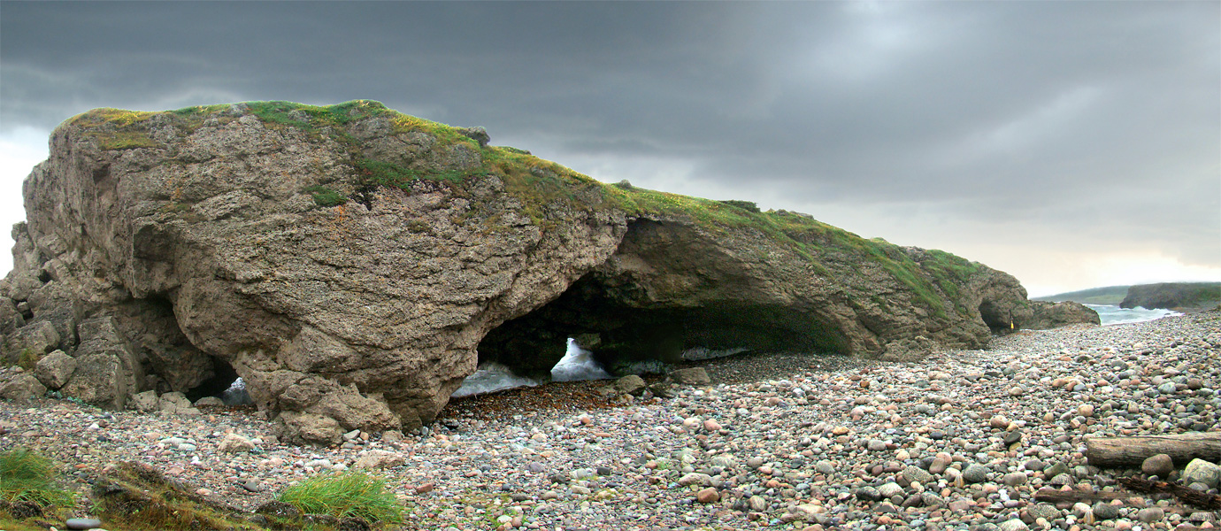 Arches Provincial Park, Western Newfoundland, Canada. On the shore of the Gulf of St. Lawrence.